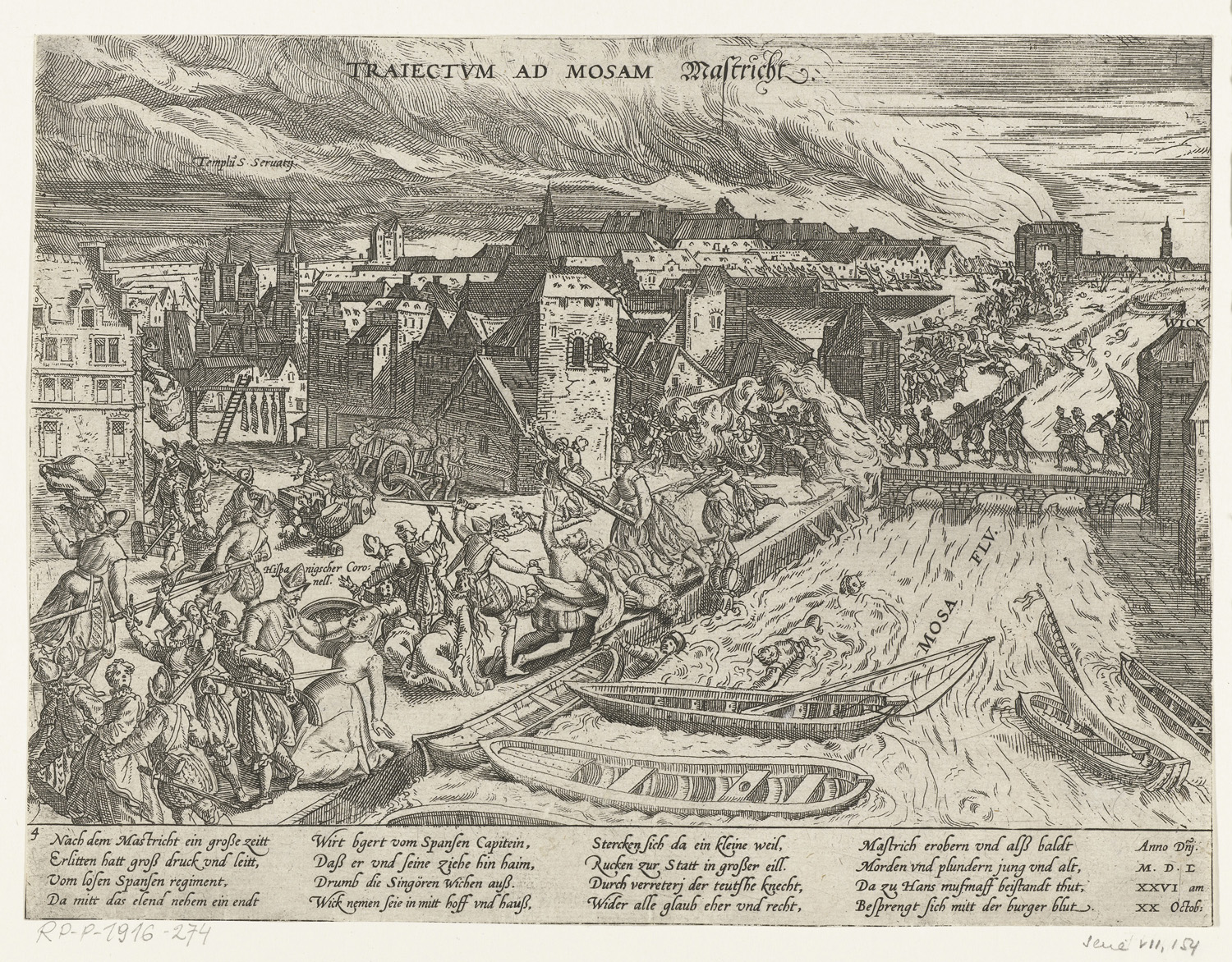 Mutiny of the Spanish soldiers, who plunder the city of Maastricht, the Netherlands 1576. Poem in German.